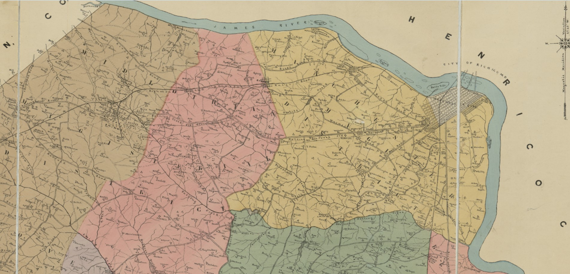 Map of Chesterfield County, Virginia 1888 (cropped to Manchester and Southside)